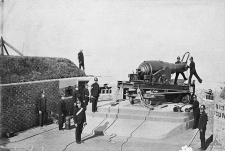 Gun detachment with RML 9 inch 12 ton Mk I gun at the Geelong Garrison Battery, Fort Queenscliff, Victoria. Sign on right reads "No. 3 Gun".